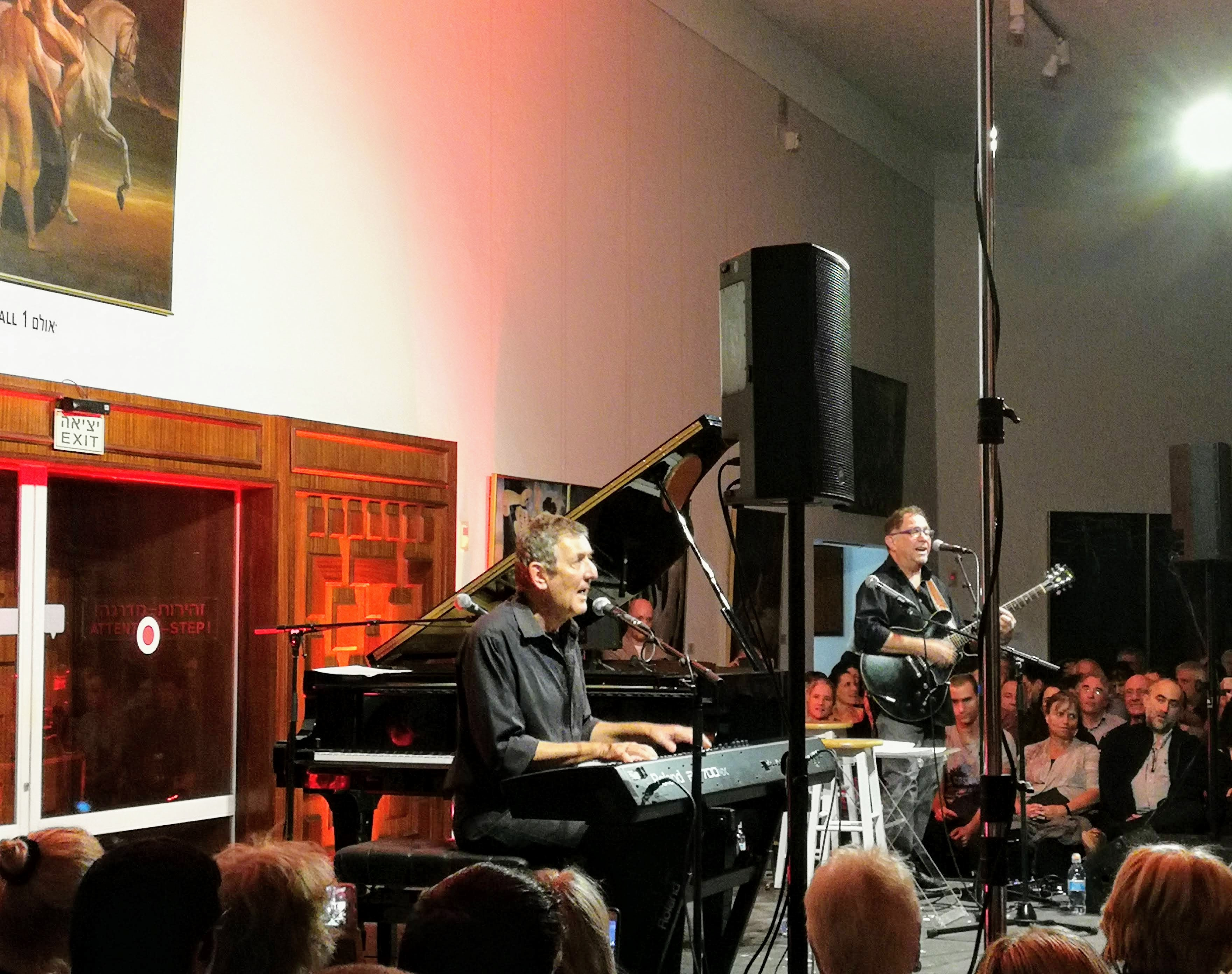 Yoni Rechter Rally Museum